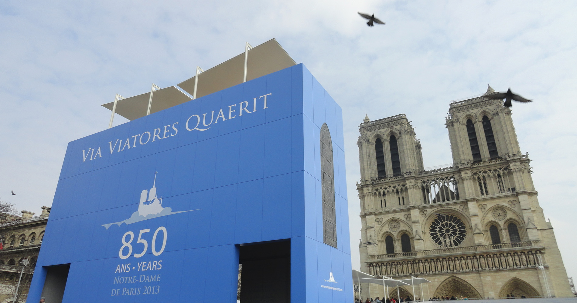 Notre Dame Cathedral, Paris. 850th Anniversary Gate in front of the cathedral. 2013